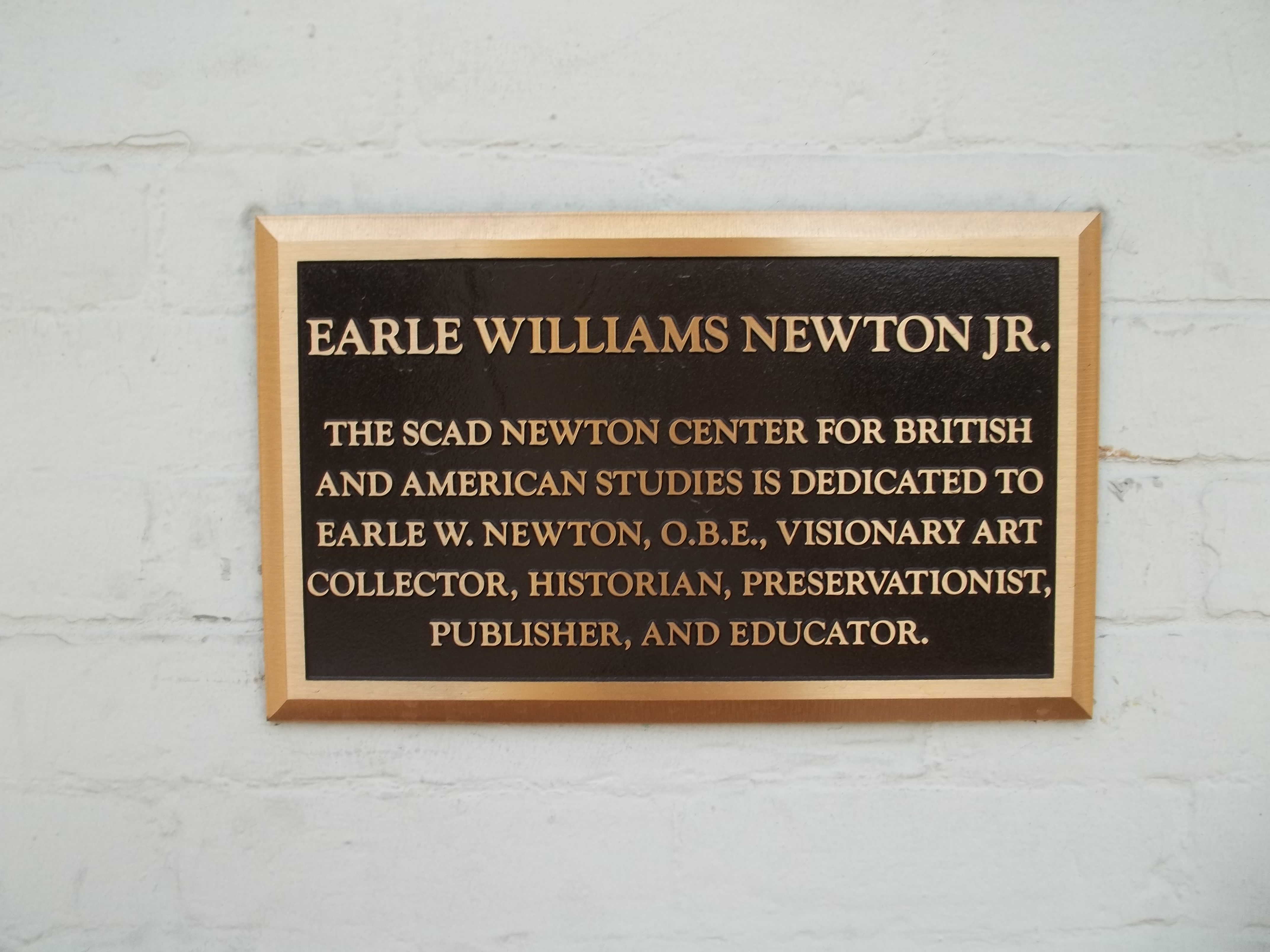 Savannah, Georgia: Old Central of Georgia Railway headquarters, now home of the SCAD Museum of Art